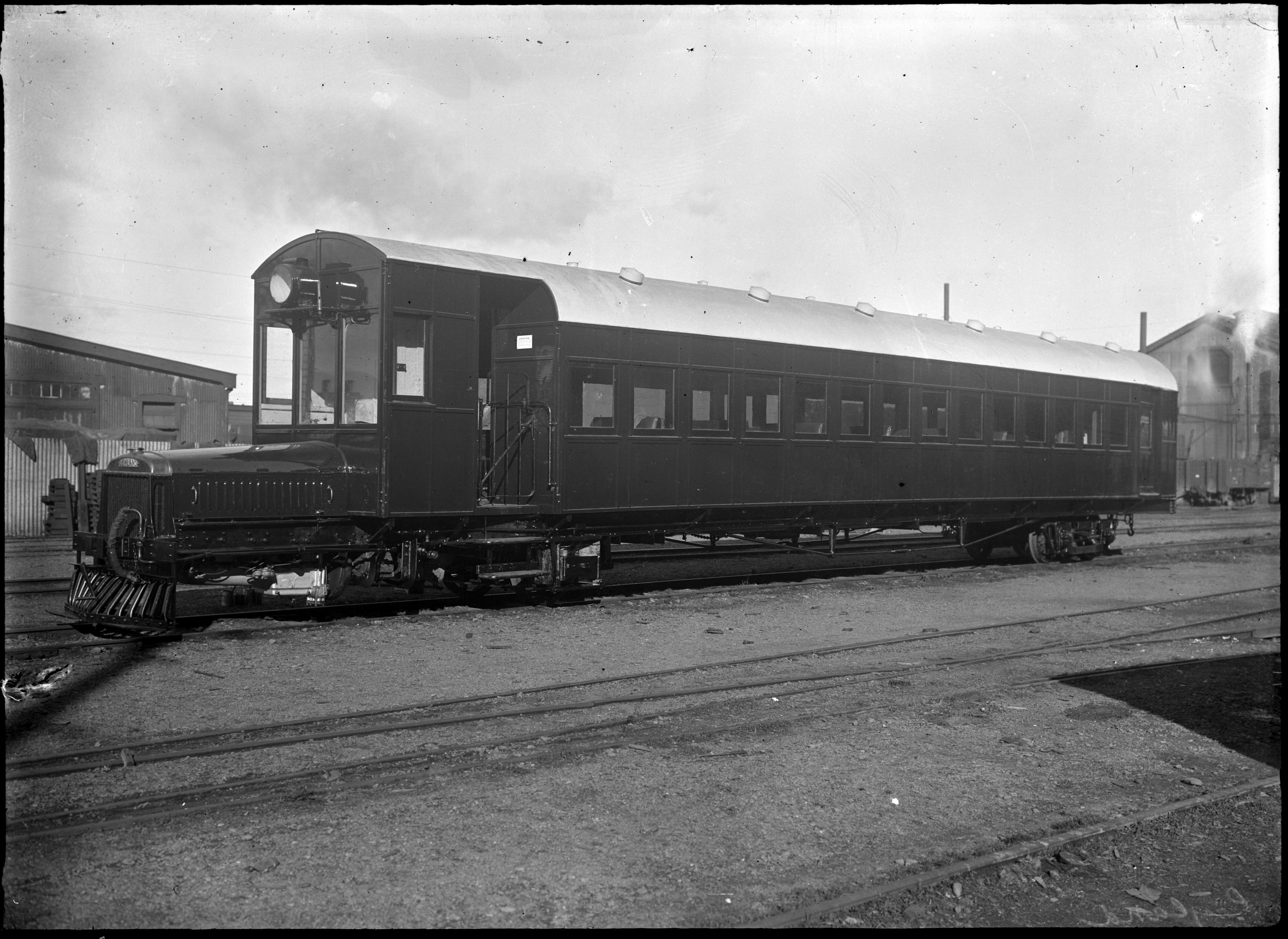 Leyland petrol railcar, photographed at Petone Railway Workshops in 1925 by Albert Percy Godber.